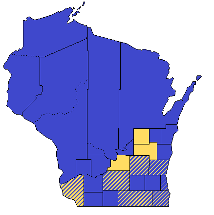 Map of the partisan makeup of the Wisconsin Assembly in 1848 Democratic: 49 seats Whig: 17 seats